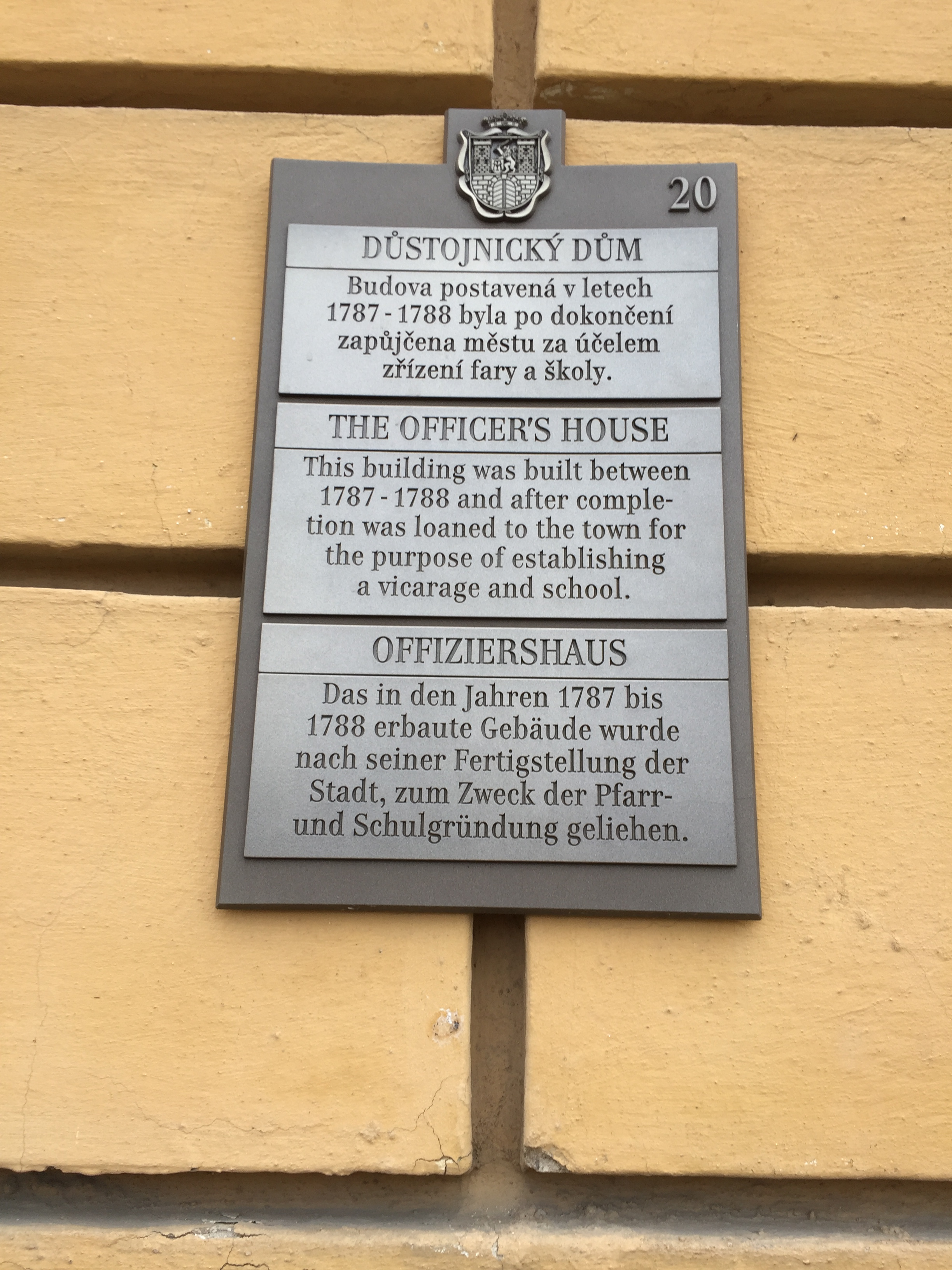 The Officer's House, Terezín, Czech Republic